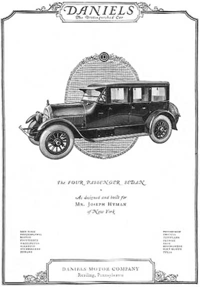 1919 Daniels Eight brochure page showing custom sedan.